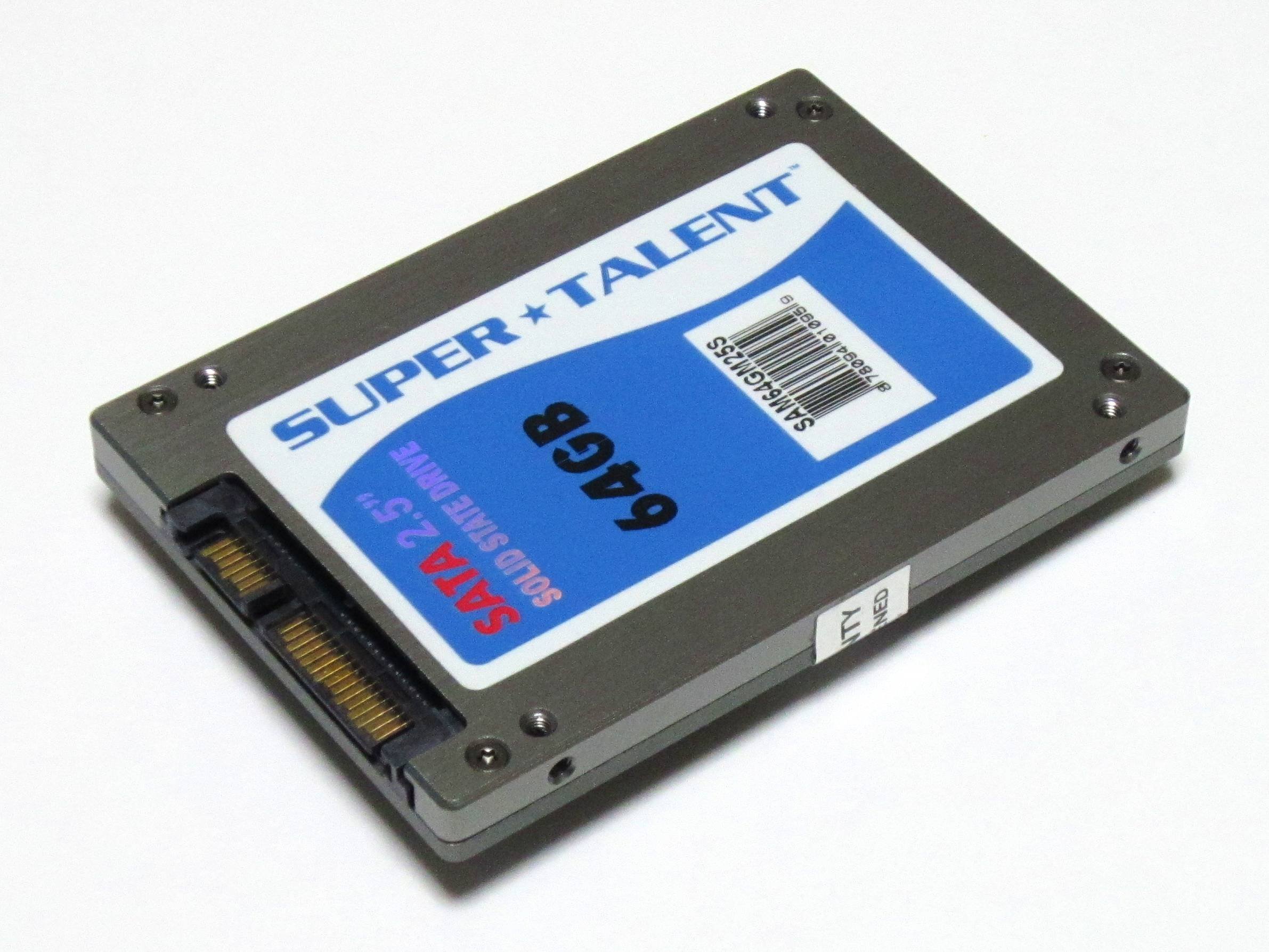 Super Talent 2.5" SATA SSD SAM64GM25S.